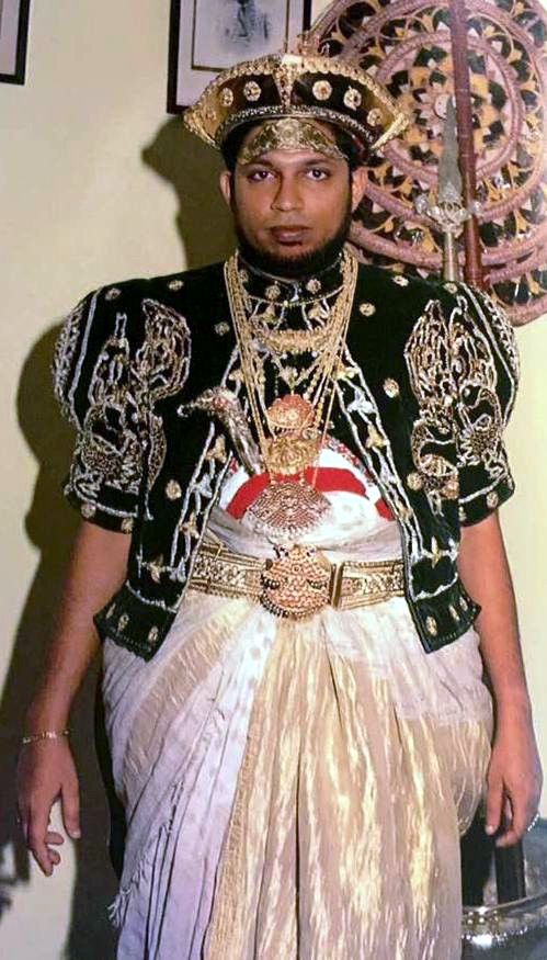 Photograph of Mr. N.P.D Wijeyeratne